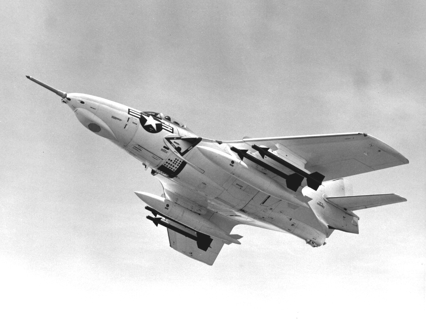 A U.S. Navy Grumman F8F-8 Cougar (BuNo 141140) armed with AIM-9B Sindewinder air-to-air missiles in 1958.